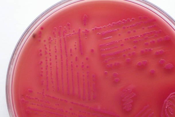 MacConkey's agar with lactose fermenting E.coli colonies